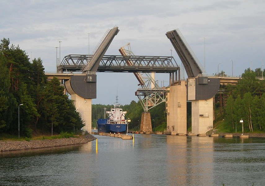 Bridges over Södertälje Canal, Södertälje, Sweden. From foreground, the Saltsjö bridge, road 225, then the E4 motorway bridge (lifted), then the railway bridge (formerly the main railway now local railway)